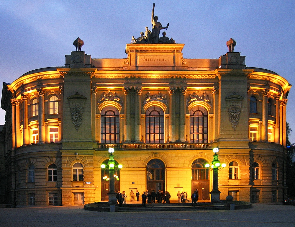 Main building of Warsaw University of Technology.